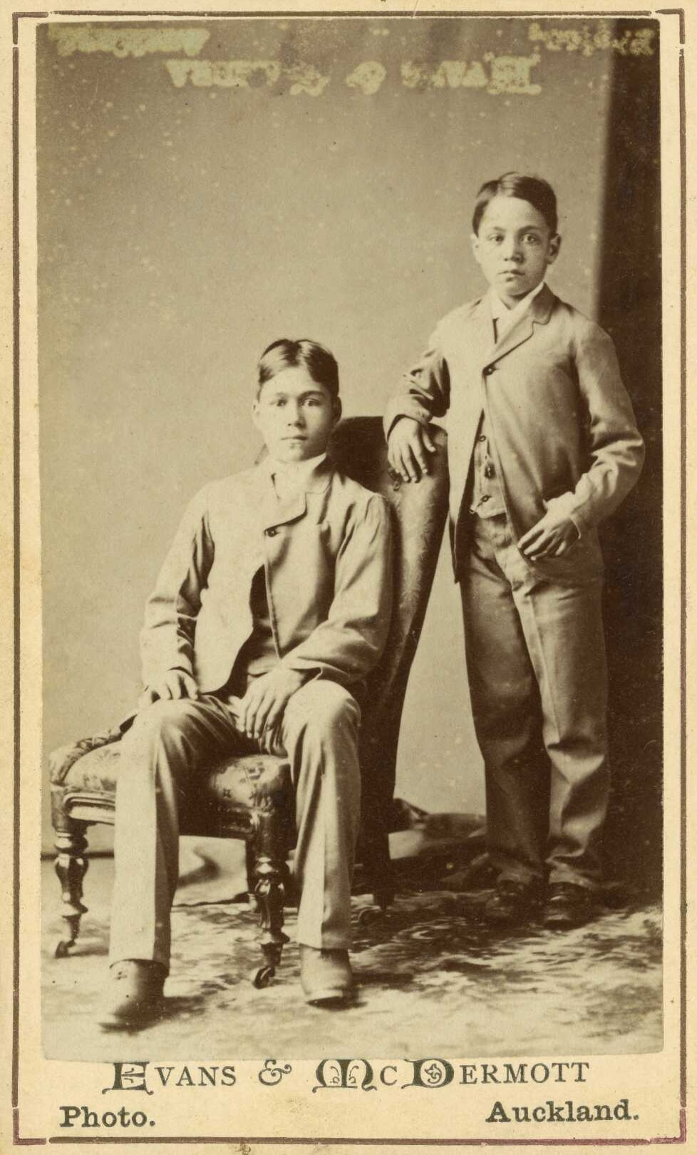 Portrait of Joseph Warbrick (seated) and his half brother William Warbrick. Photograph taken circa 1870s by Evans & McDermott.